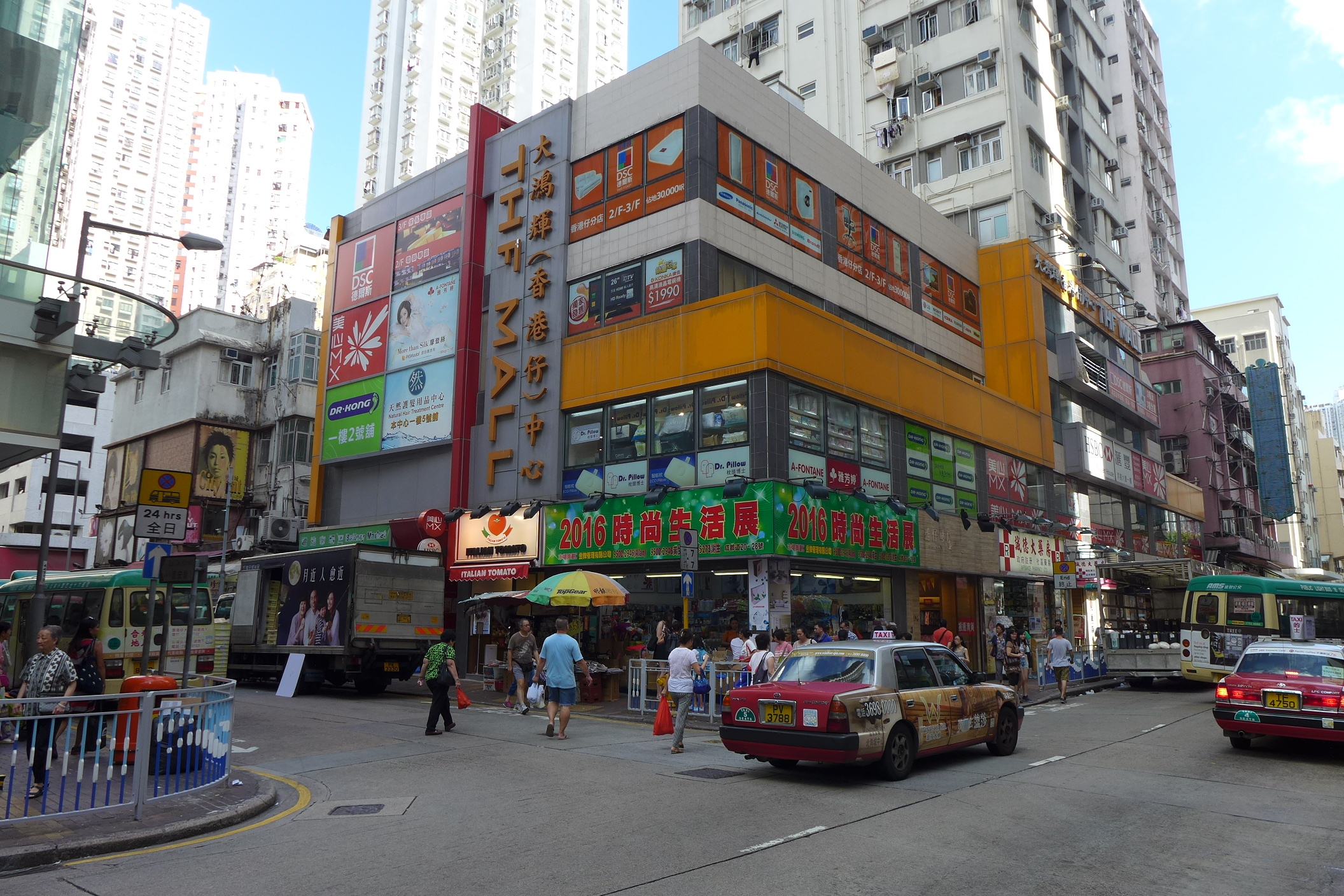 Albert House THF Mall